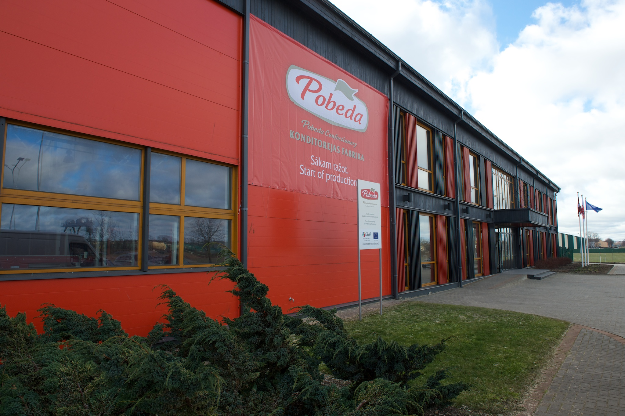 Ventspils. Pobeda Confectionery